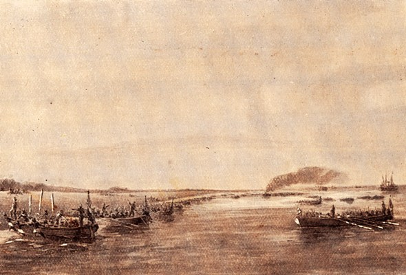 Landing te Ampenan